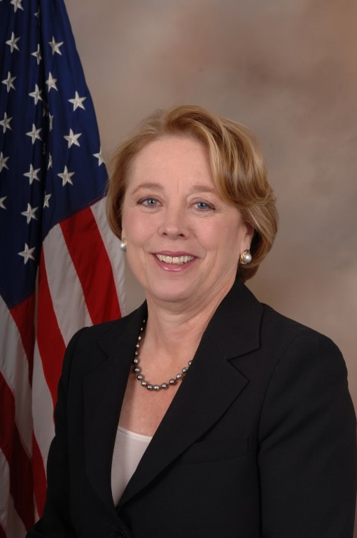 Niki Tsongas, member of the United States House of Representatives from Massachusetts.